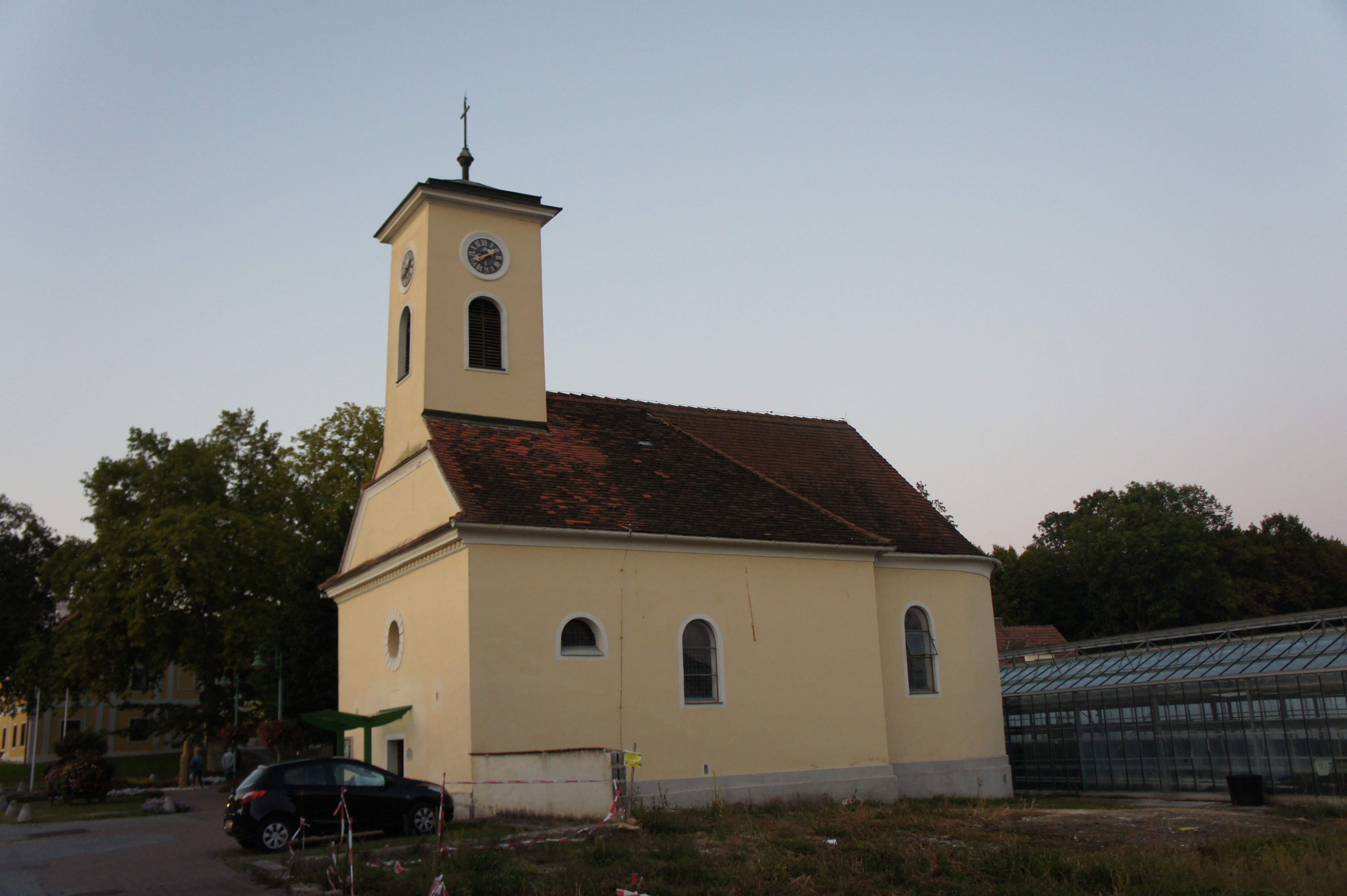 Catholic church St. Anna, Jormannsdorf, Bad Tatzmannsdorf, Austria